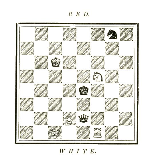 jpg of chess puzzle on p11 of File:Through the Looking-Glass, and What Alice Found There.djvu